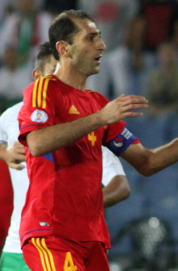 Sargis Hovsepyan (Armenian: Սարգիս Հովսեփյան, born on 2 November 1972 in Yerevan, Armenia) is a retired Armenian football defender, who last played for Armenian Premier League club Pyunik Yerevan.